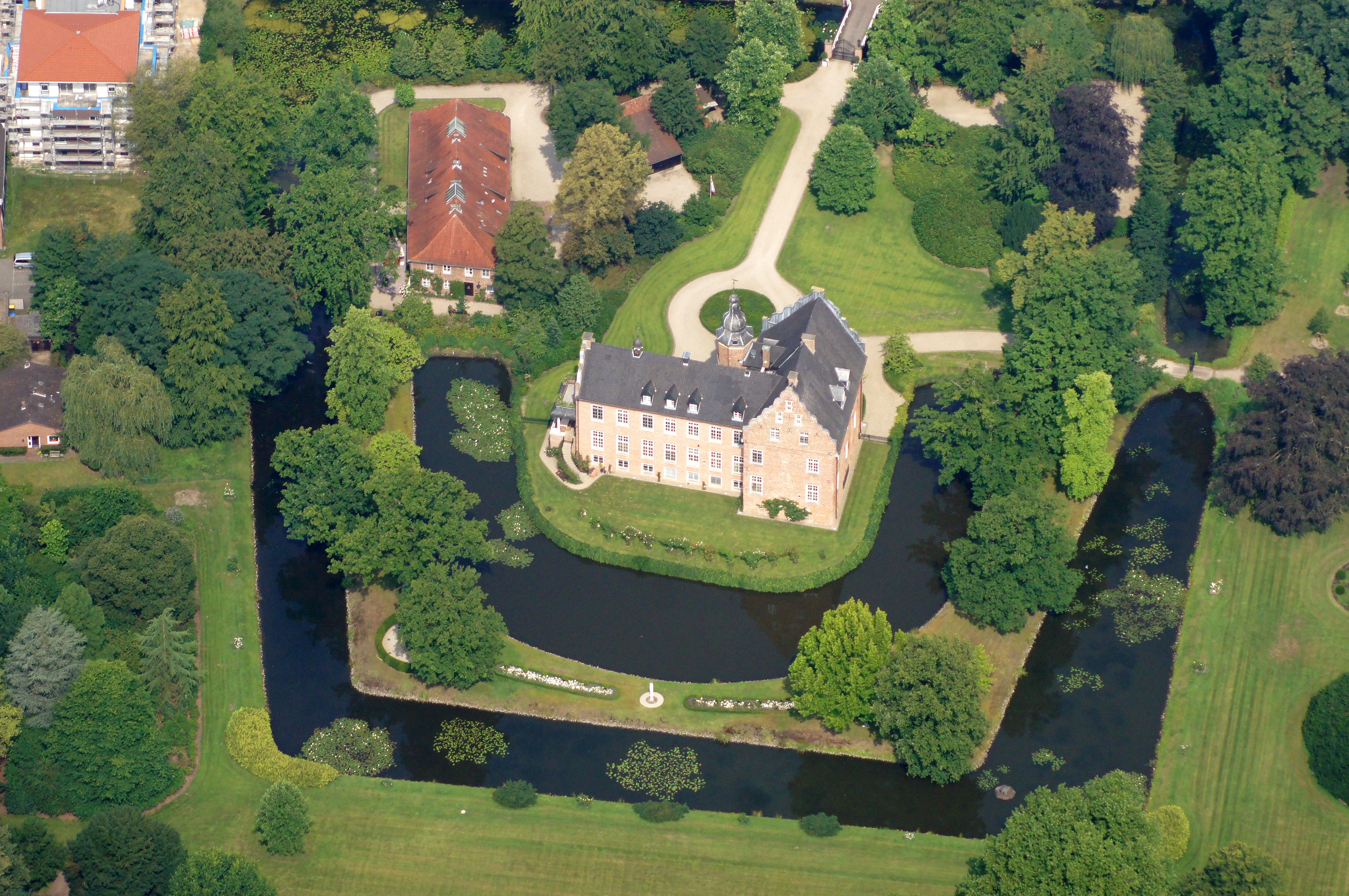 Castle in Rhede, district of Borken in North Rhine-Westphalia, Germany.